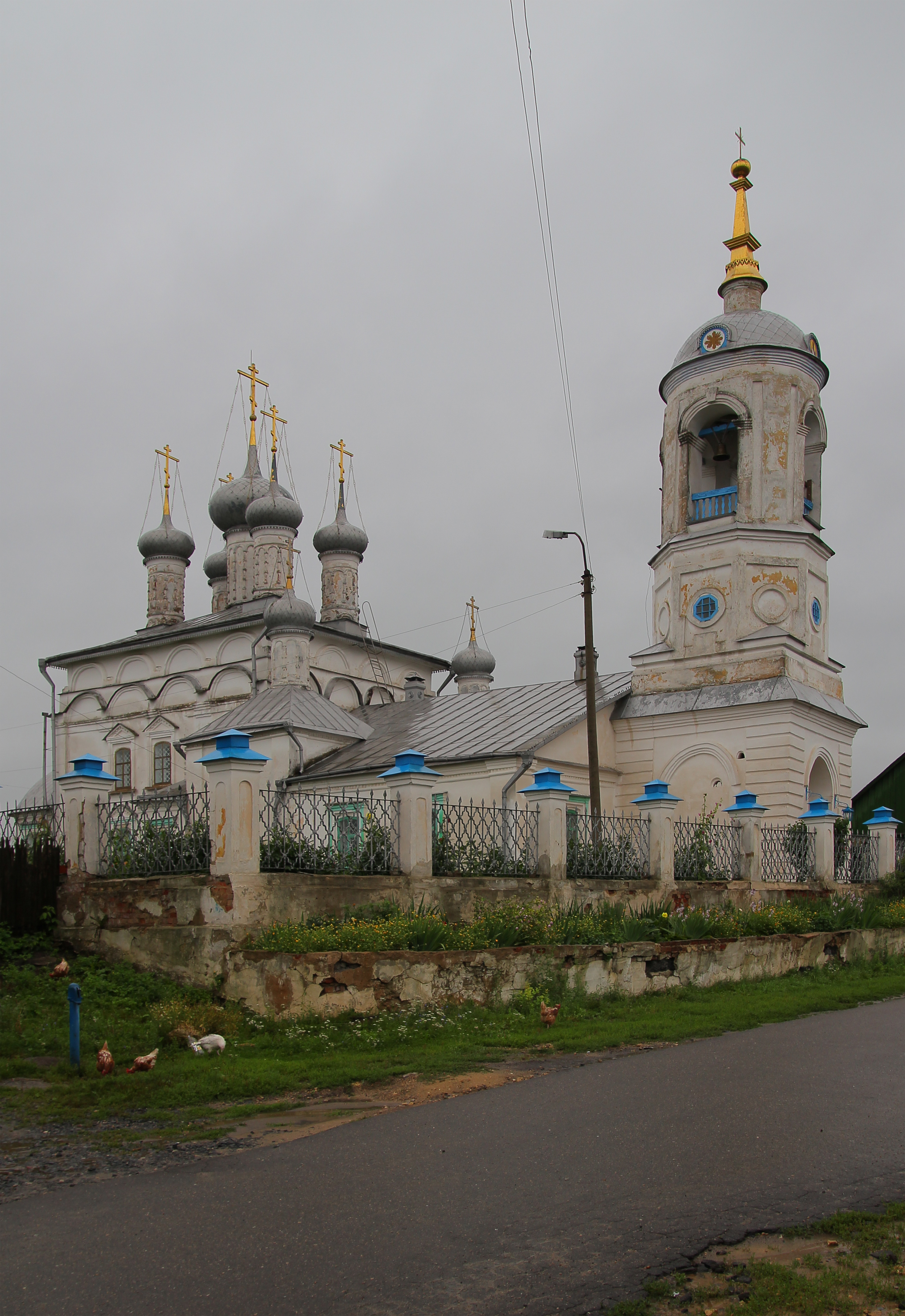 Church of the Presentation of St. Mary in Mtsensk (Russia)